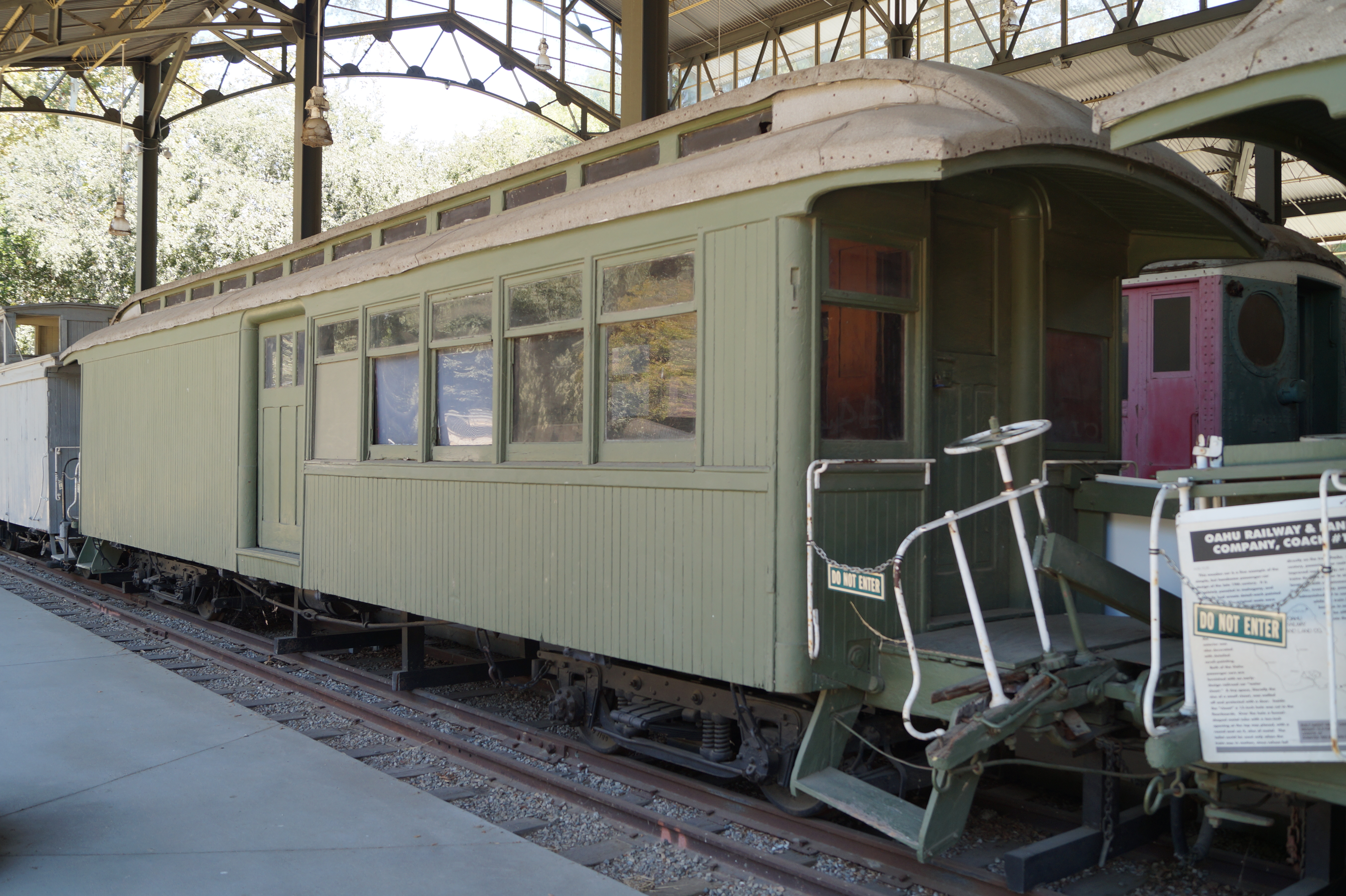 Travel Town Museum is a transport museum dedicated in the northwest corner of Los Angeles, California's Griffith Park. The history of railroad transportation in the western United States from 1880 to the 1930s is the primary focus of the museum's collection, with an emphasis on railroading in Southern California and the Los Angeles area.